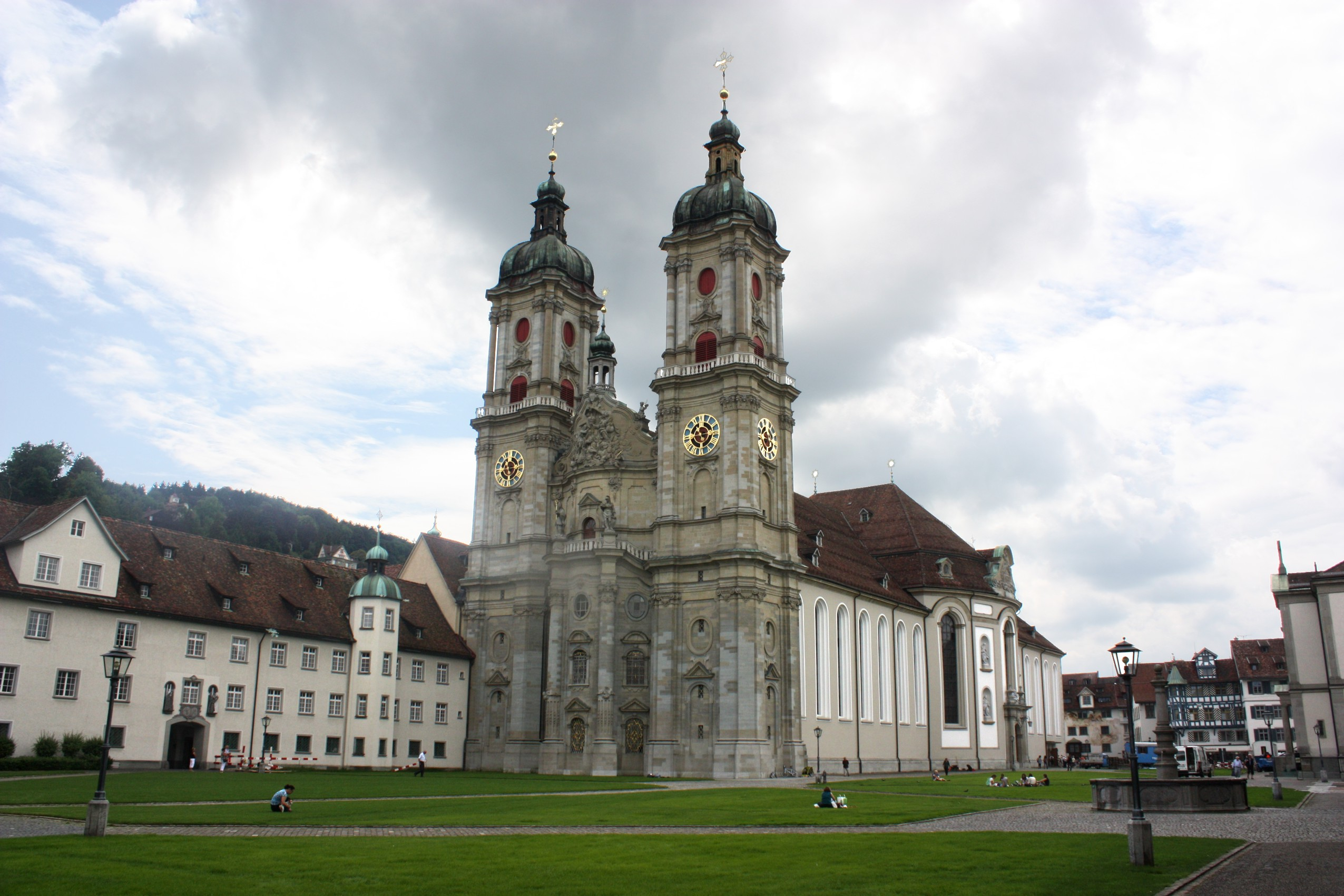 St. Gallen, the abbey church